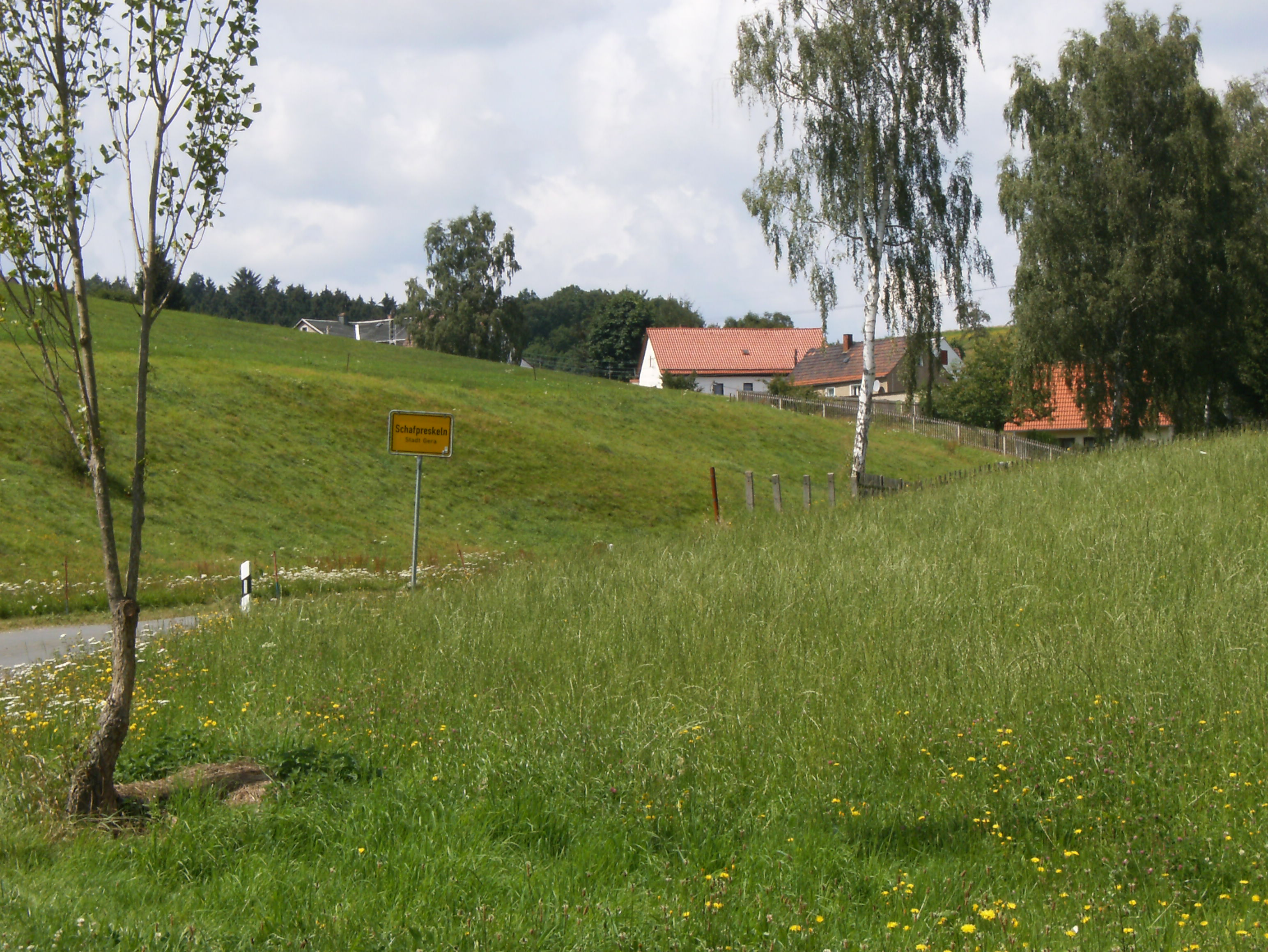 Gera Schafpreskeln.